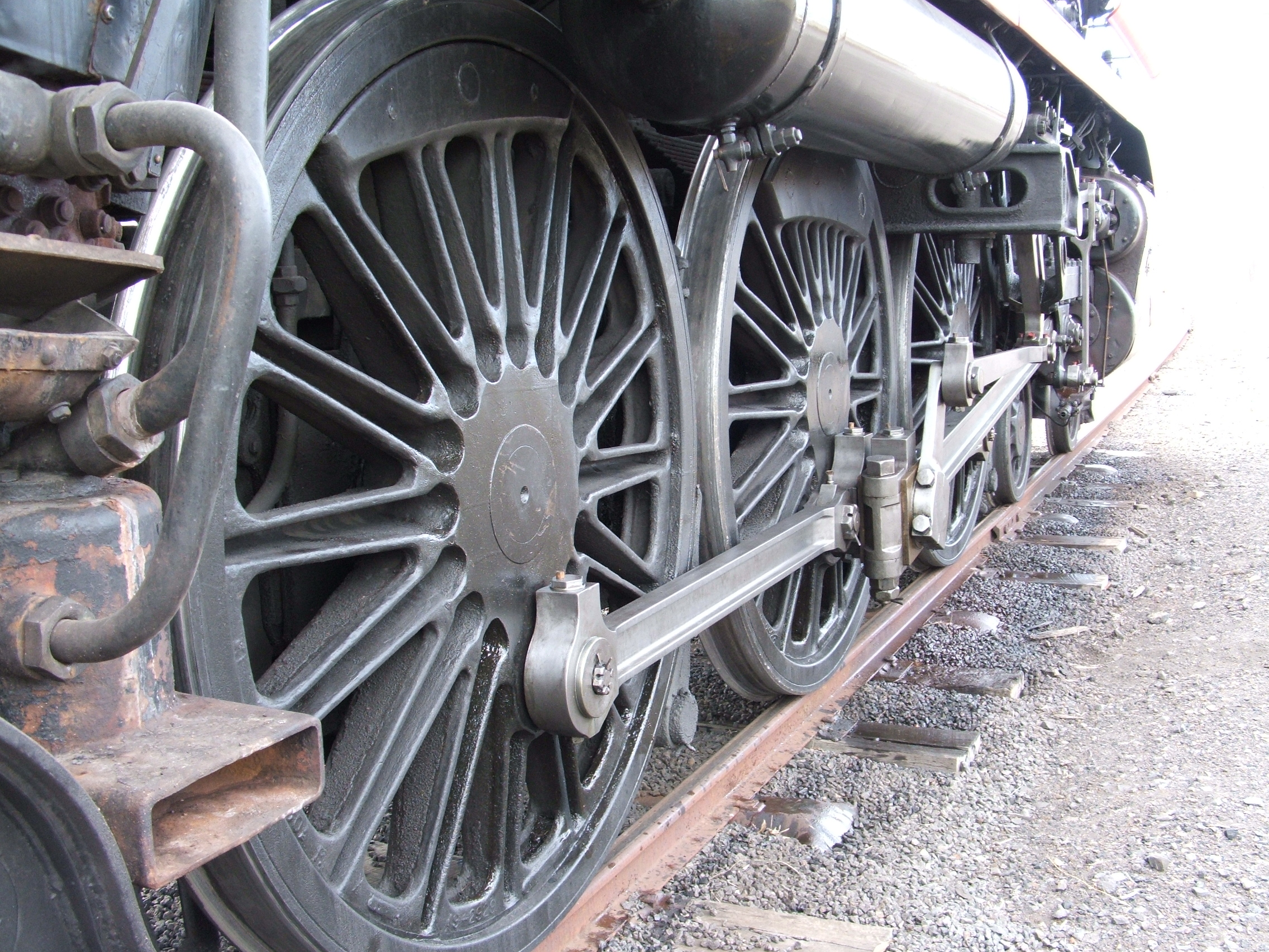 SCOA-P wheel detail of Victorian Railways R class 'Hudson' R 761. Zzrbiker 14:05, 31 March 2007 (UTC)